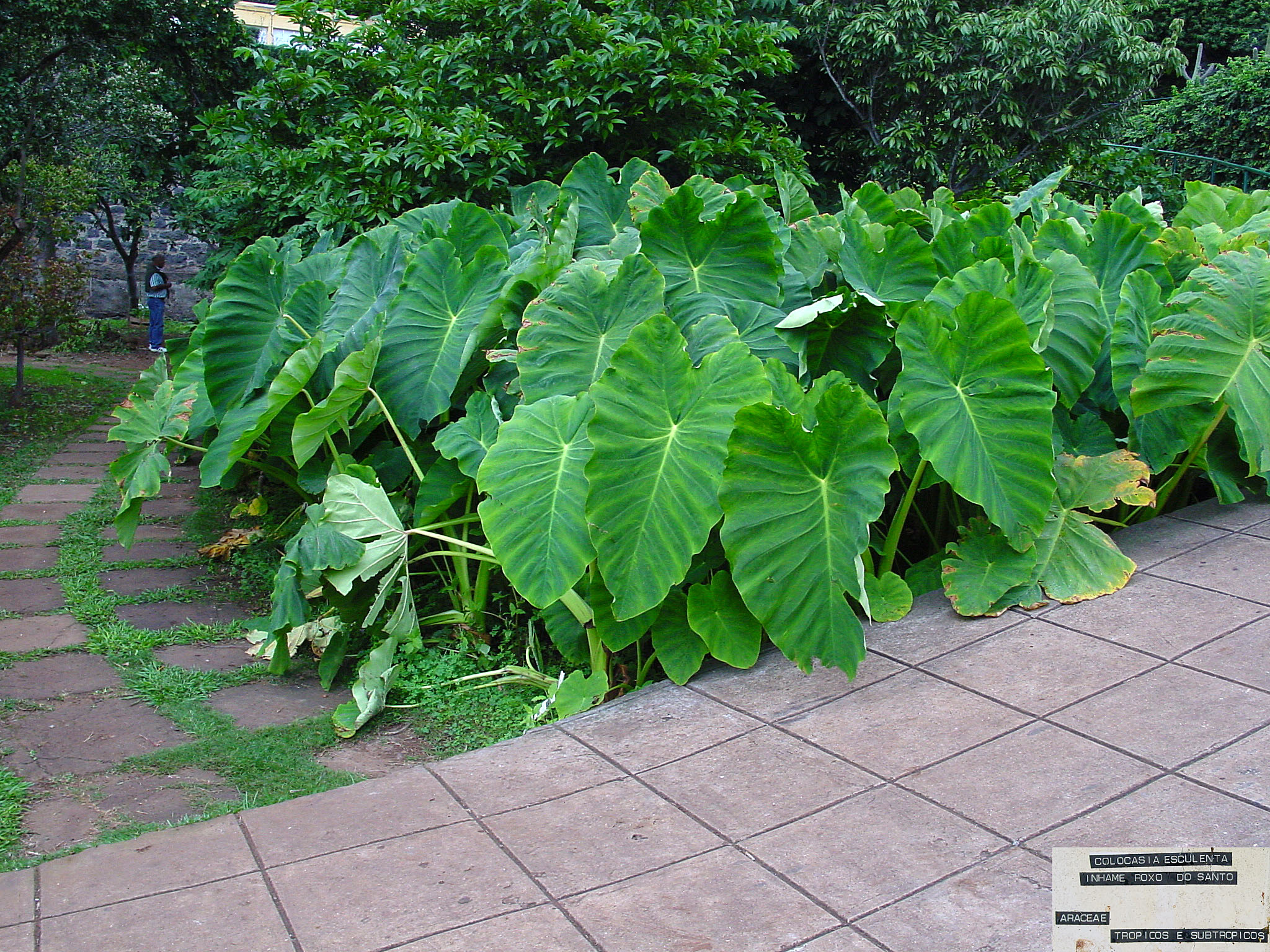 Taro. Photo taken in the botanic garden in Madeira.